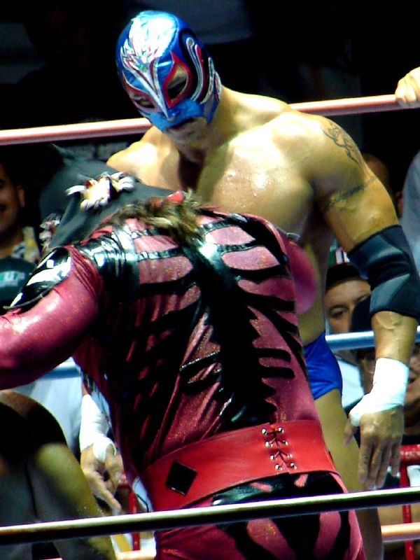 A picture of Mexican Luchadors / professional wrestlers Olimpico and Super Parka